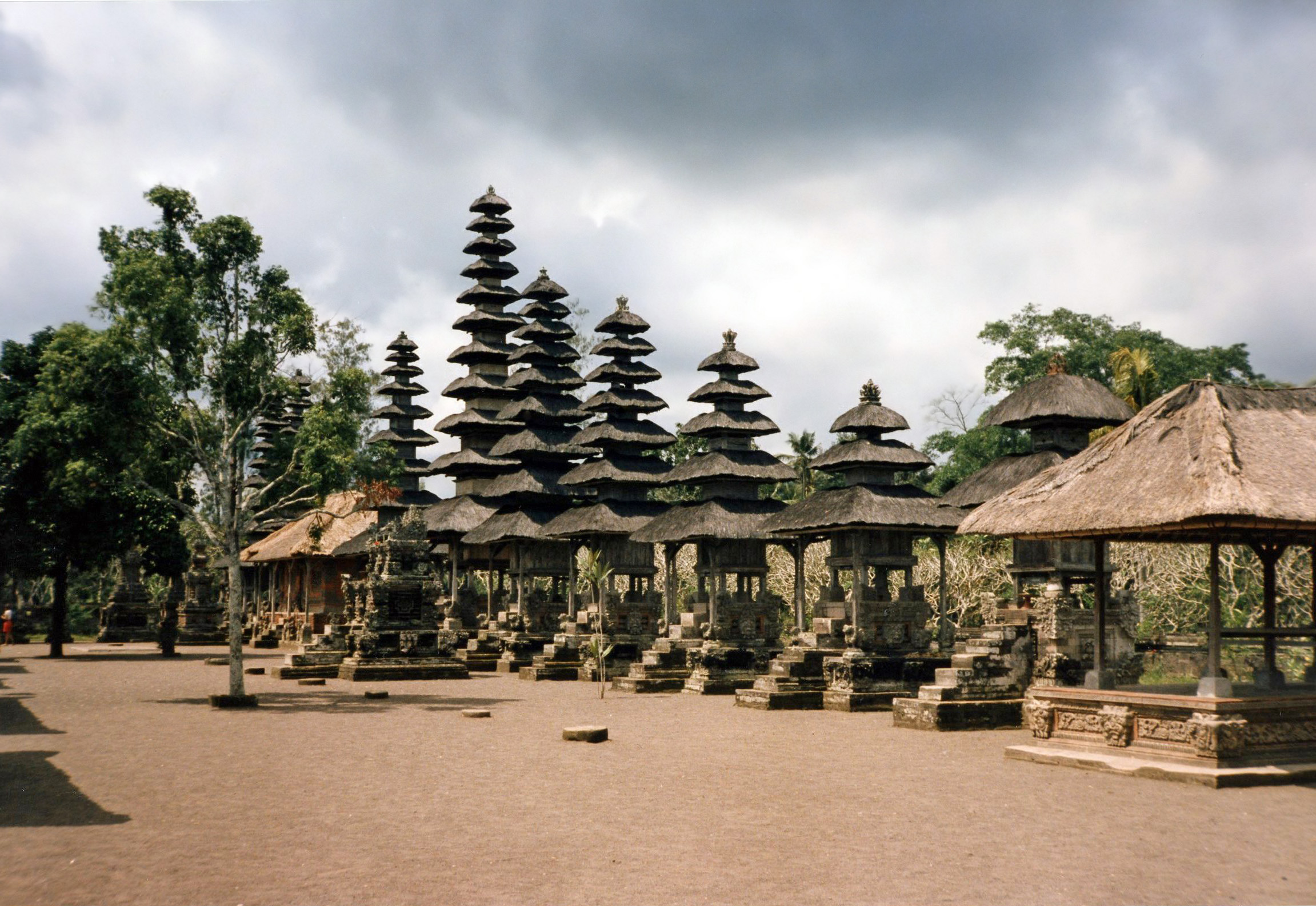 Taman Ayun temple, Mengwi, Bali, Indonesia